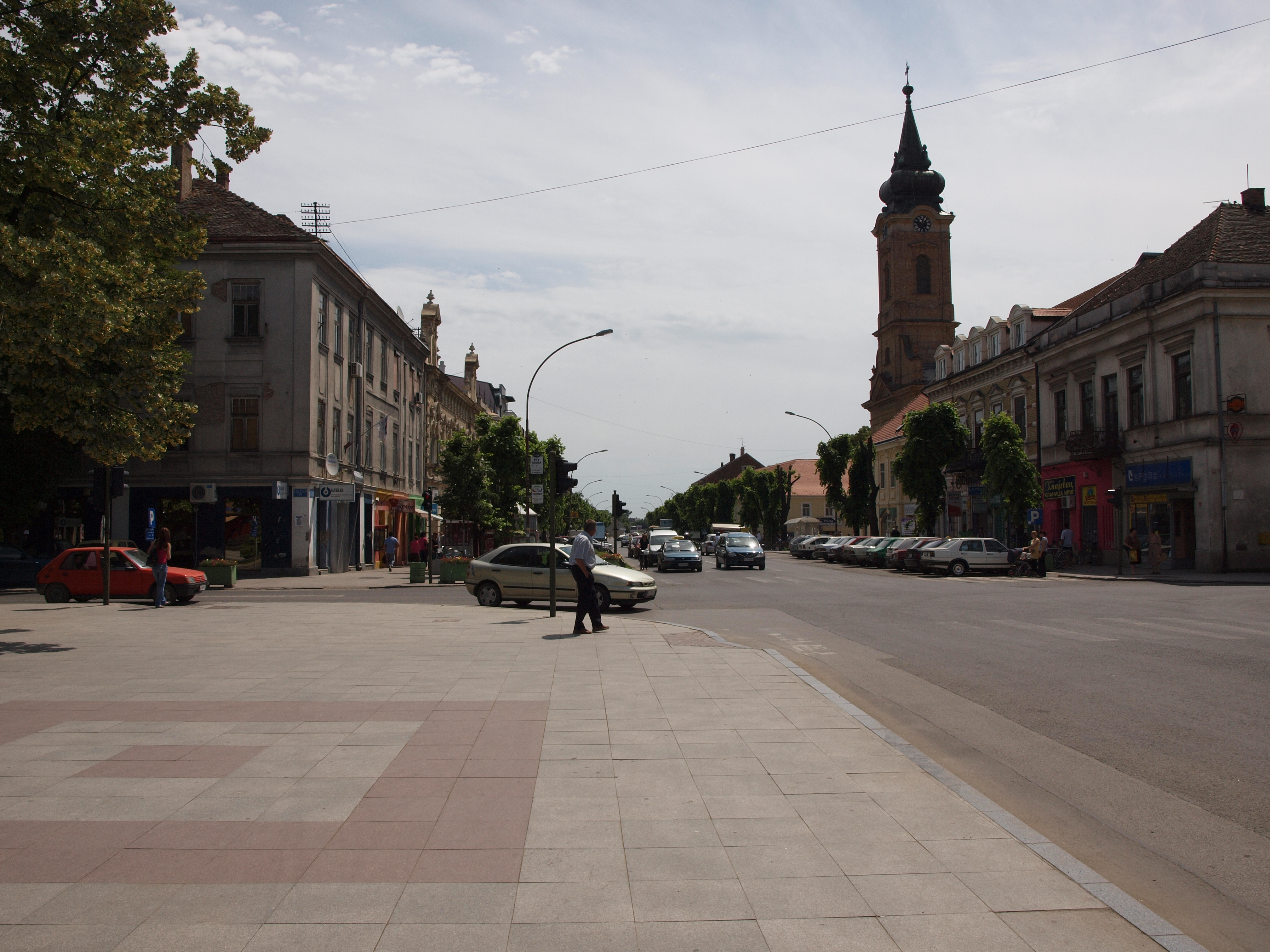 Downtown Ruma